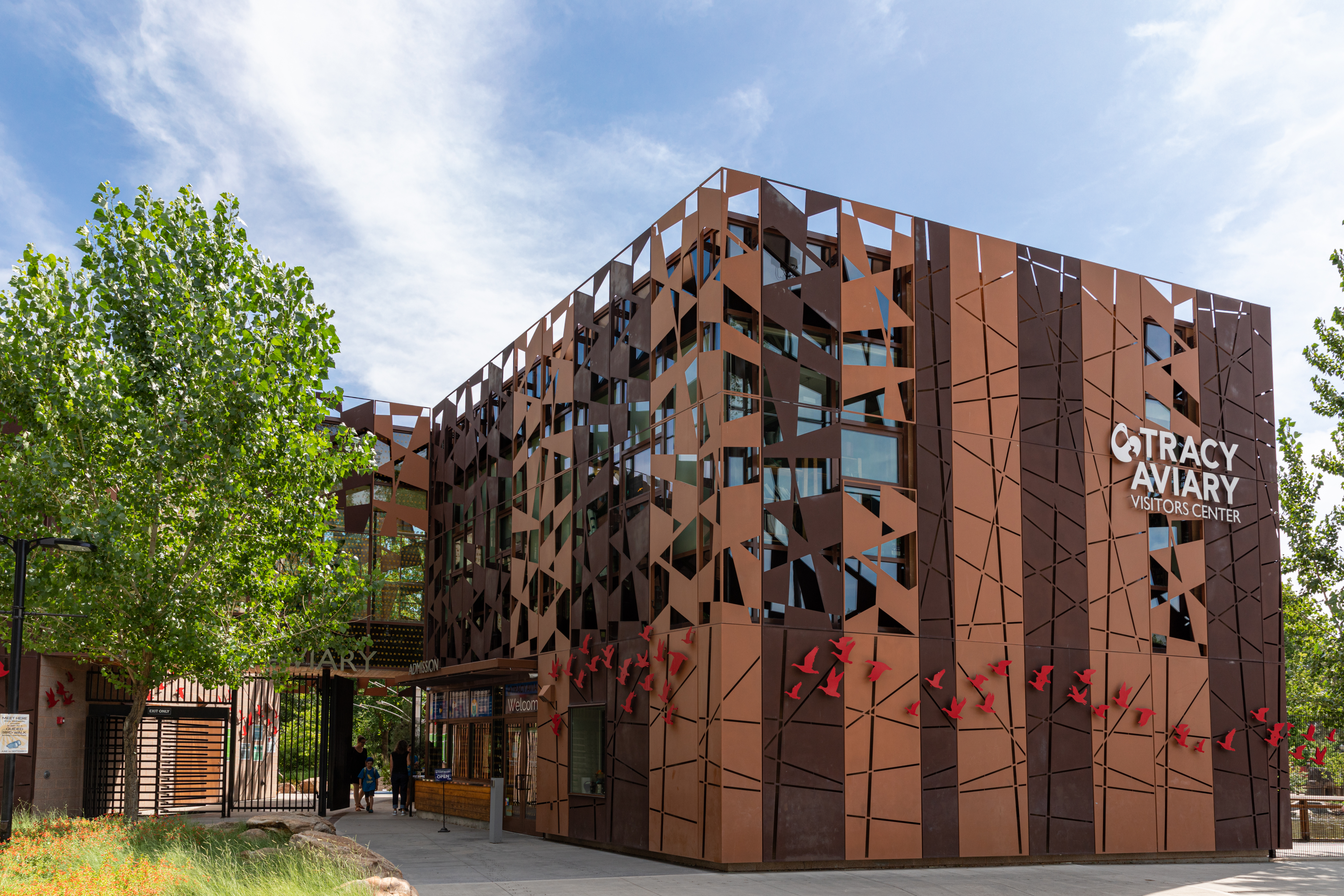 Tracy Aviary. Located in Liberty Park in Salt Lake City, UT. July 2019.